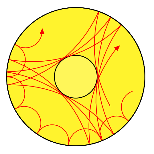 Paths of seismic waves